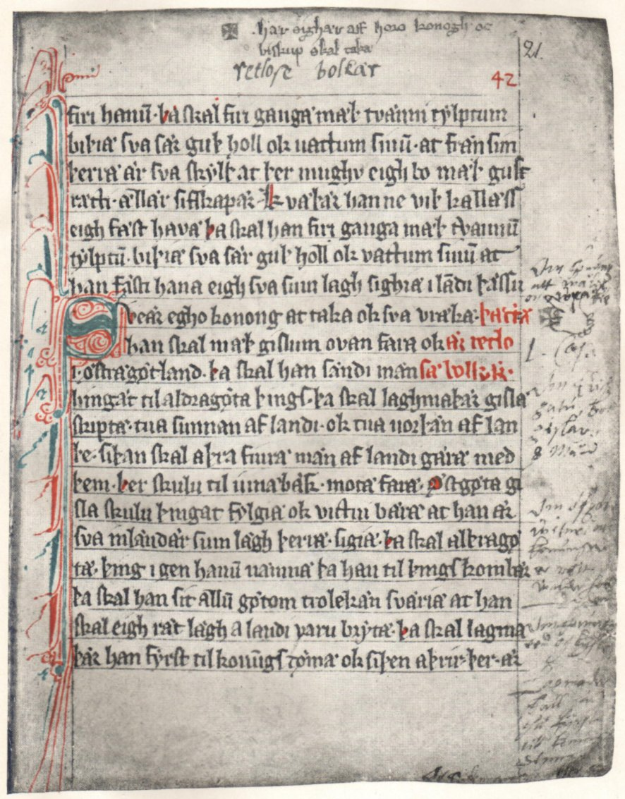 Sheet number 21 from the Early Westrogothic law